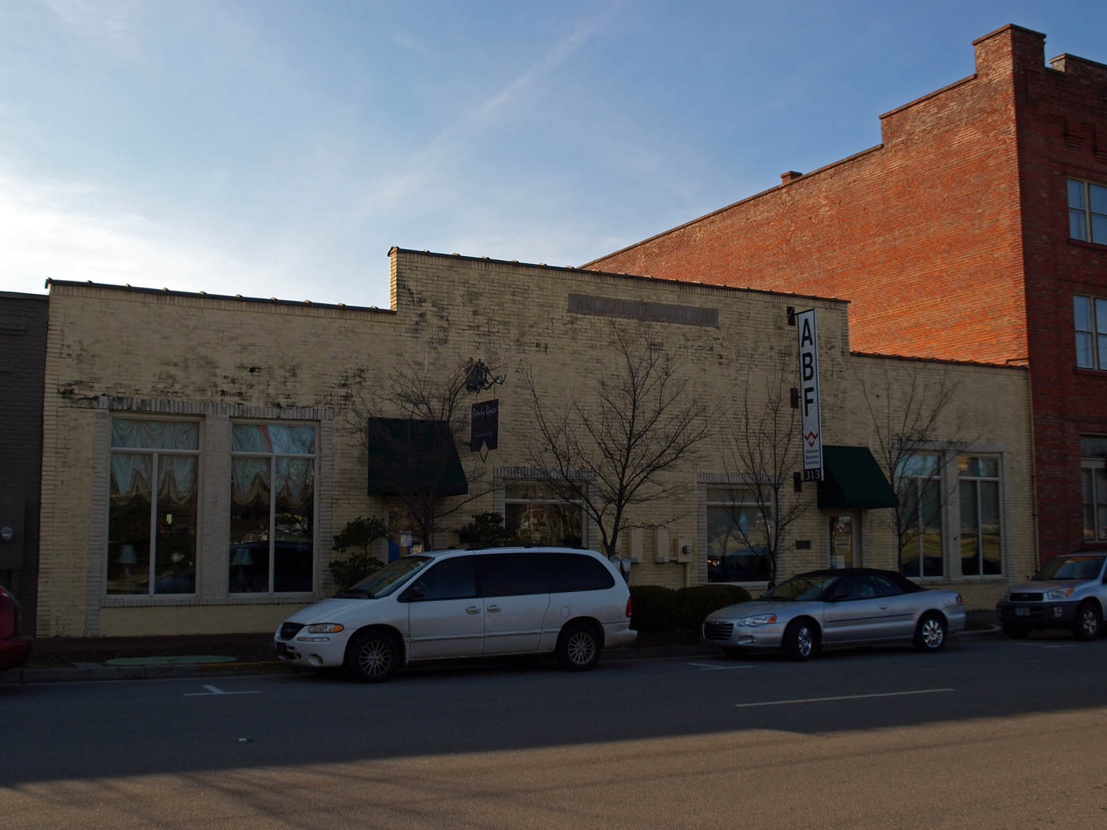 The Kelly Brothers and Rowe Building in Huntsville, Alabama, listed on the National Register of Historic Places.